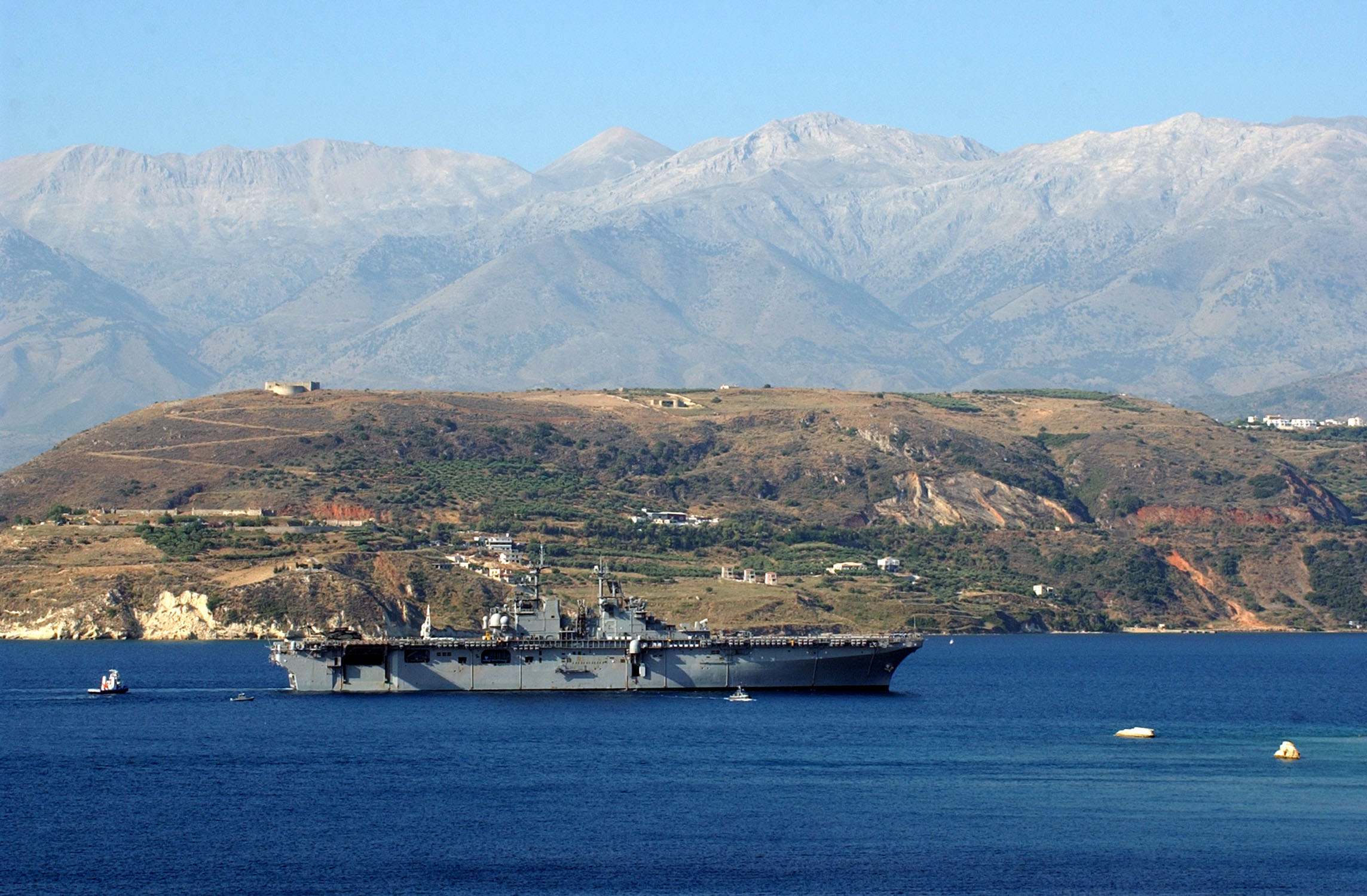 Souda Bay Crete, Greece (July 22, 2004) - The amphibious assault ship USS Kearsarge (LHD 3) arrives in Souda Bay Harbor for its first port visit since being surge deployed from its homeport in Norfolk, Va., in support of Operation Iraqi Freedom (OIF) and the global war on terrorism. The ship’s principal mission is the embarkation, deployment, landing and support of a Marine landing force anywhere in the world. U.S. Navy photo by Paul Farley (RELEASED)